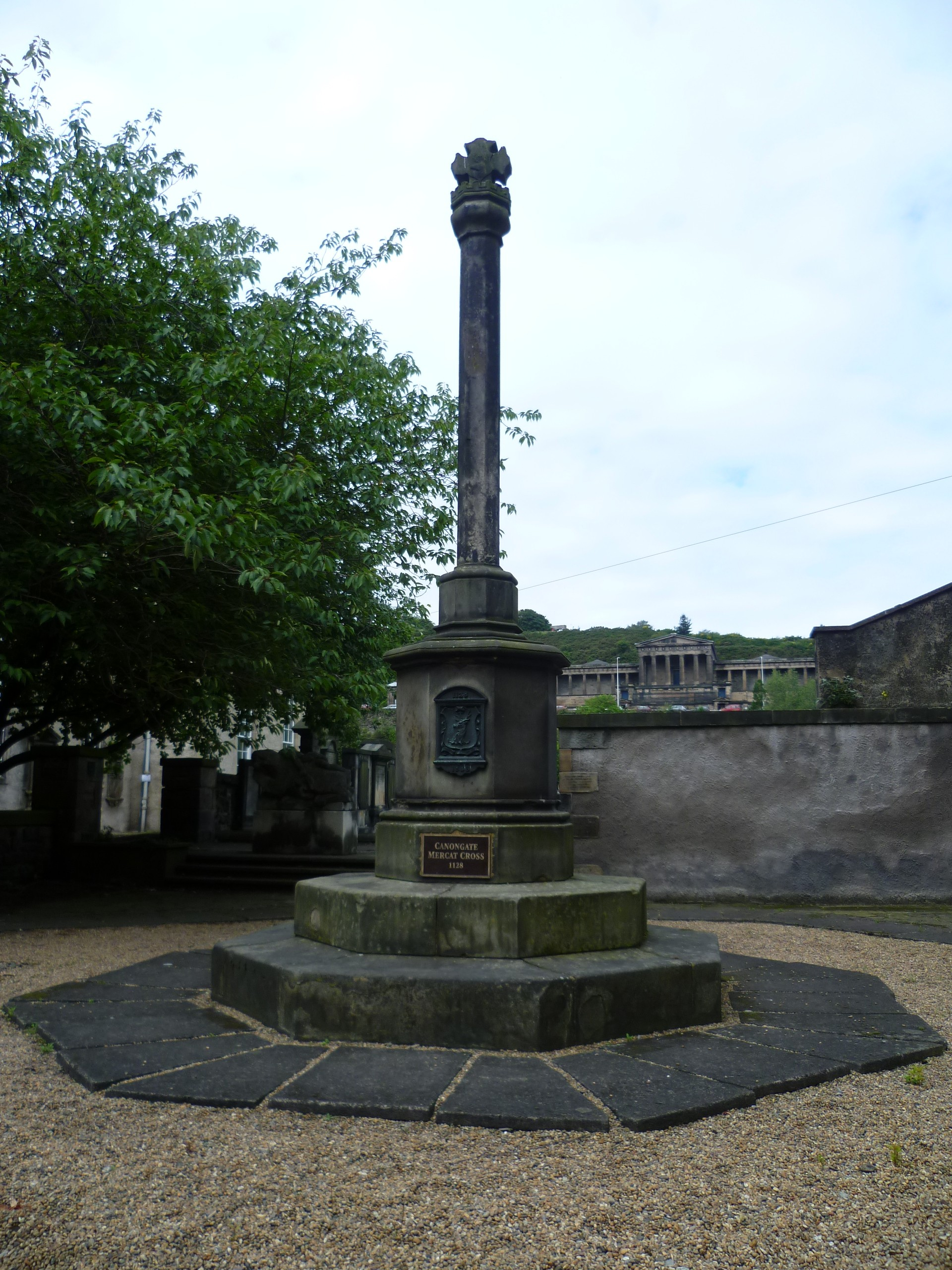 The Cross is believed to be the oldest public monument in Edinburgh. It formerly stood in the roadway, but now stands within the grounds of the Canongate Kirk.